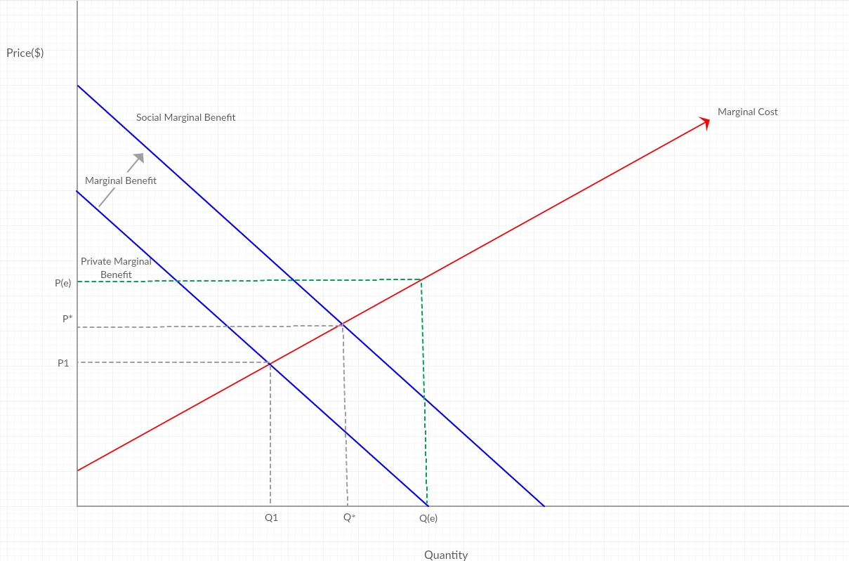 Immunization shifting to a quantity below eradication